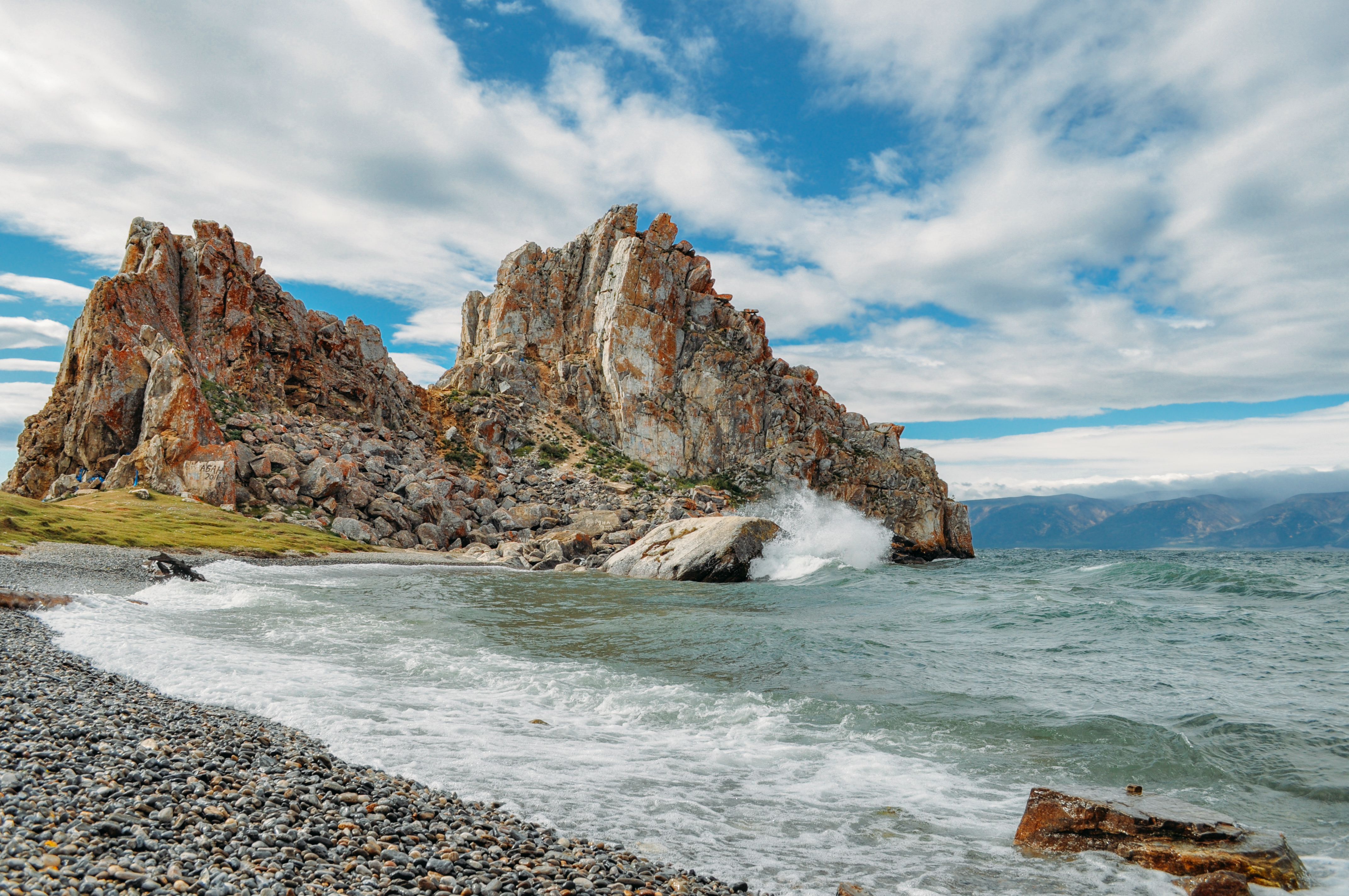 Shamanka Rock on the Lake Baikal, Russia This image is related to the protected area of Russia number 3810274